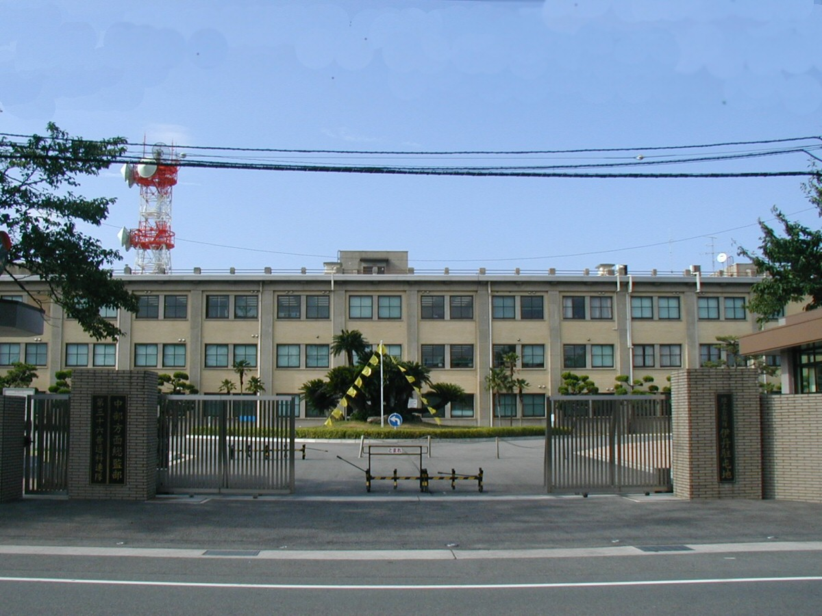 JGSDF Central force head office in Itami, Japan (with yellow handkerchieves fluttering)